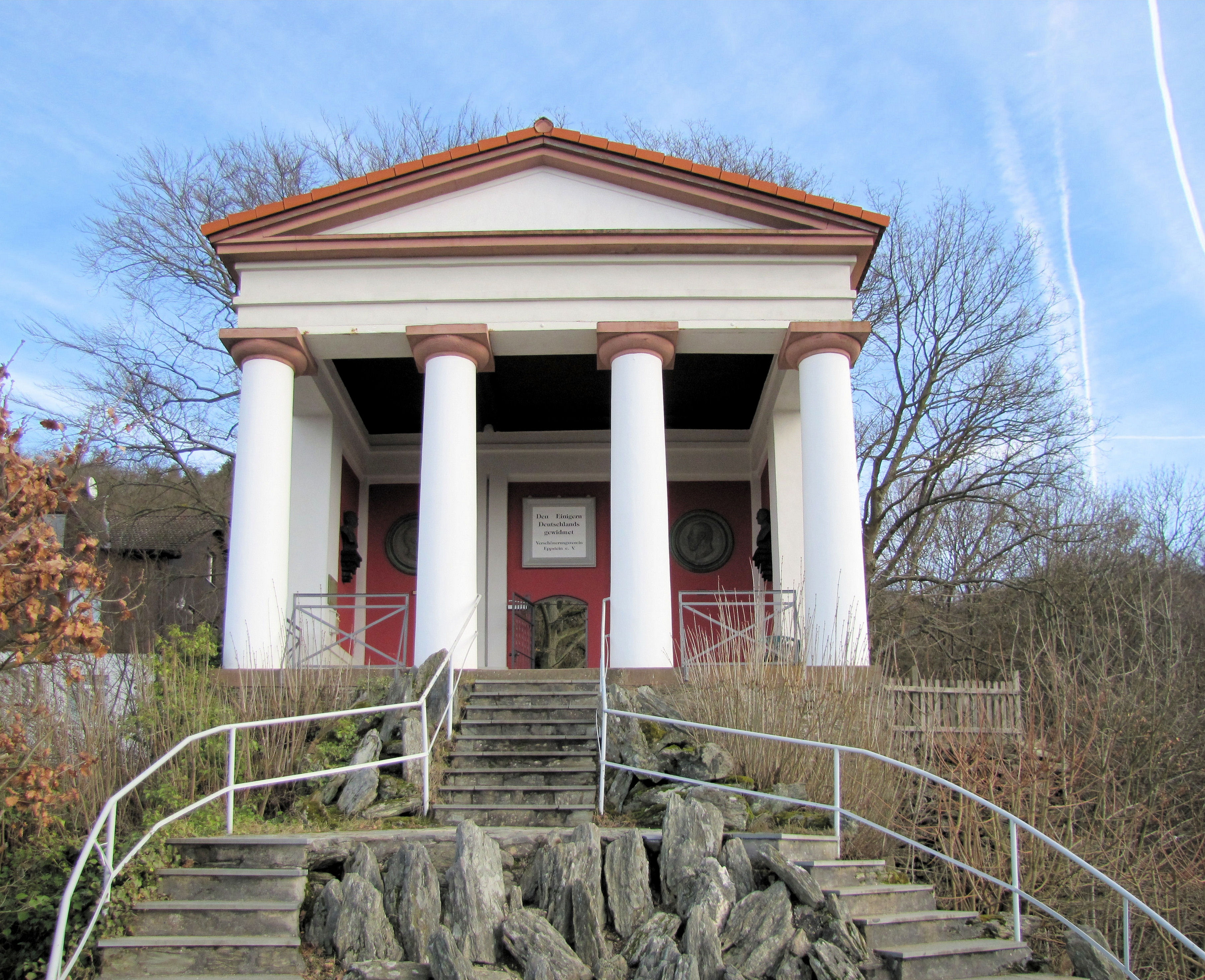 "Kaisertempel", at Eppstein in the Main-Taunus-Kreis, Hesse, Germany